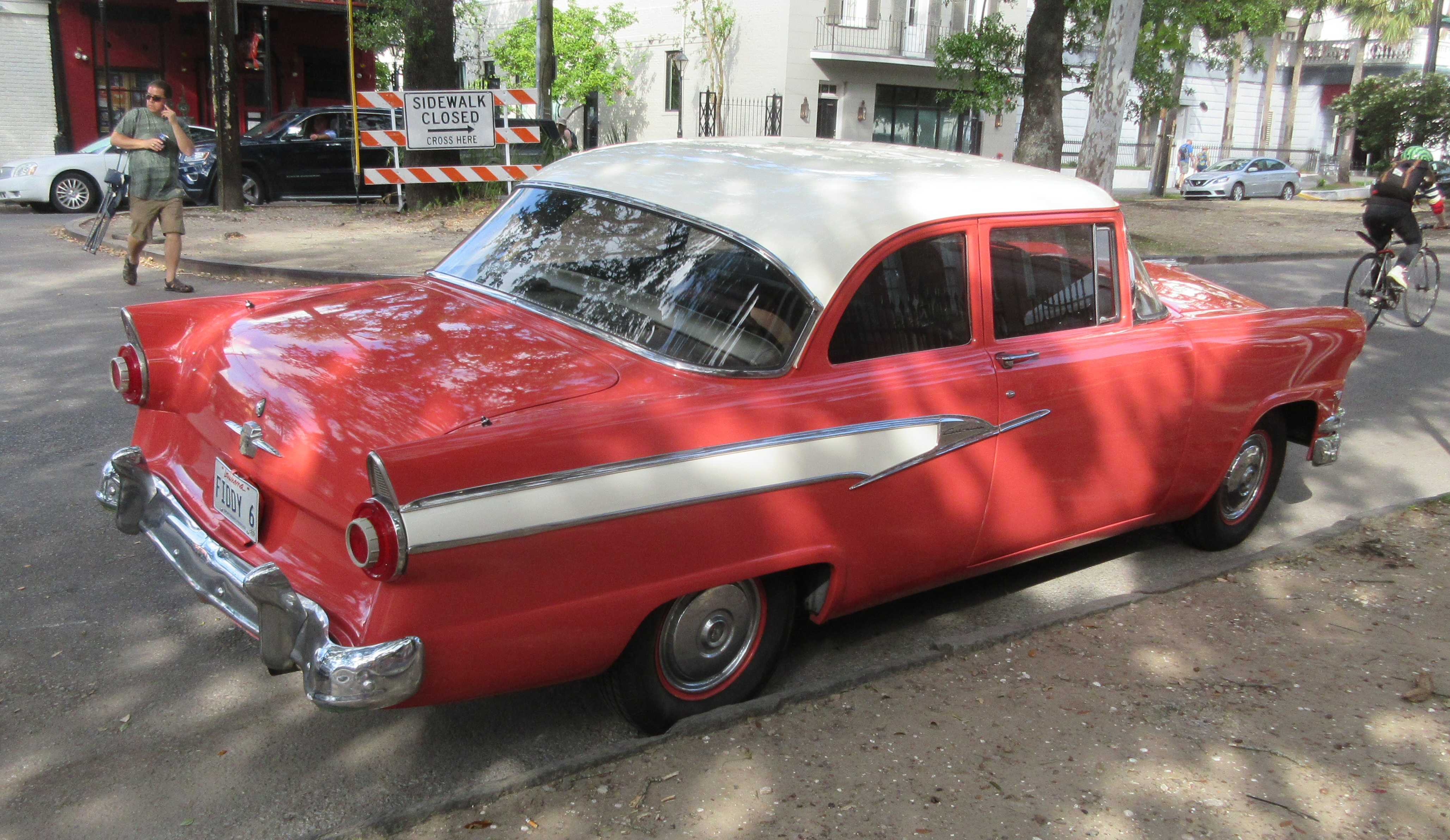 1956 Ford on Esplanade Avenue, French Quarter, New Orleans.